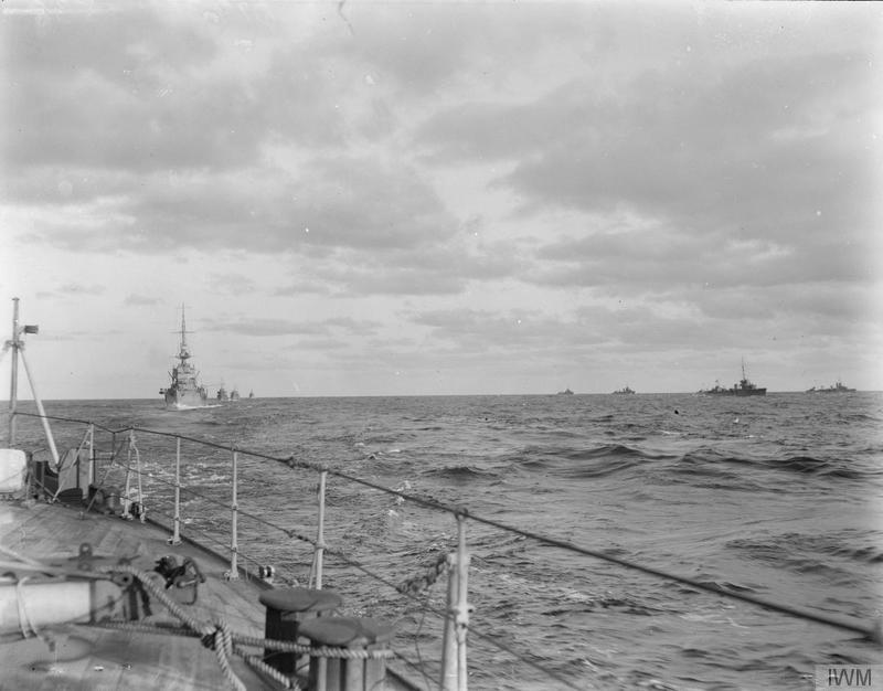 The British Naval Campaign in the Baltic, 1918-1919 Royal Navy fleet in the Baltic on its way to Reval (Tallinn), December 1918.